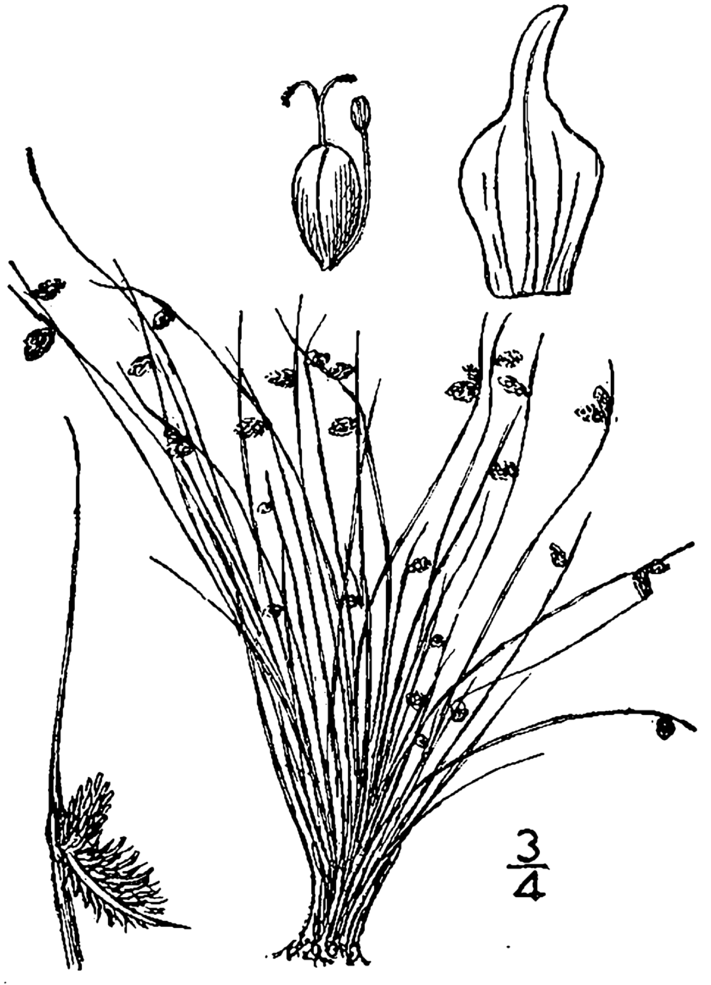 Lipocarpha aristulata (Coville) G. Tucker